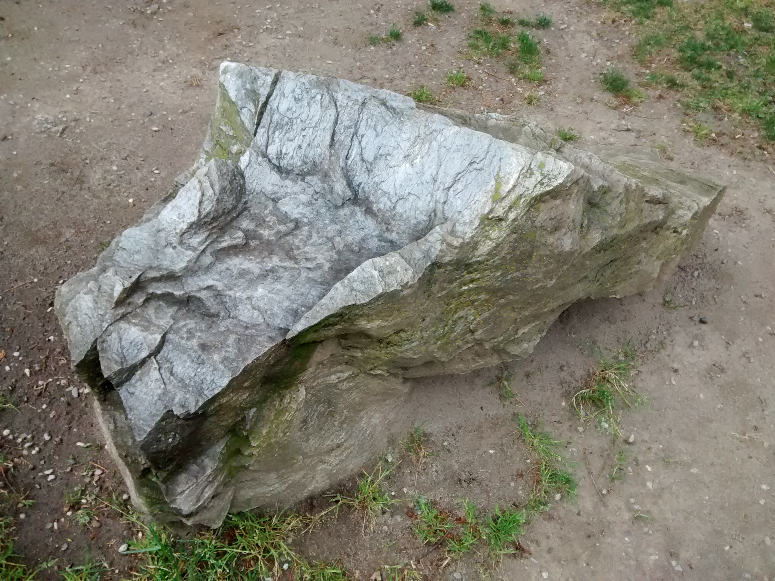 Phyllite from the parish of La Massana displayed in the Jardí de Roques in the Parc Central, Andorra la Vella.